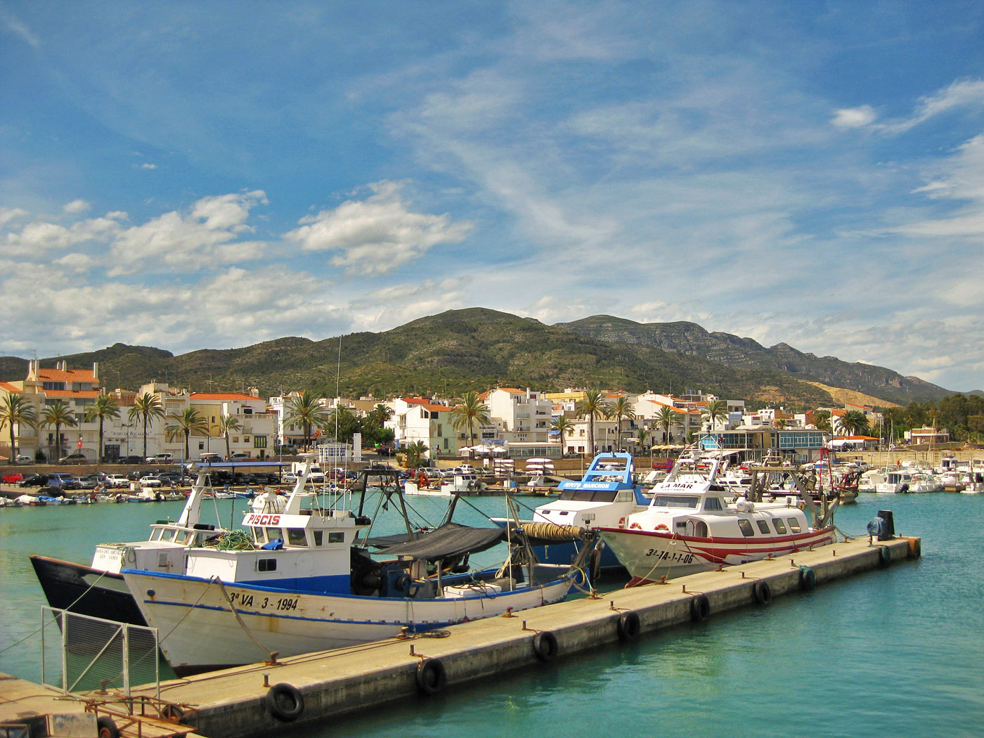 View of the marina of Cases d'Alacanar, Catalonia, from the pier. Vista del port esportiu de Cases d'Alcanar des del moll, nucli que pertany a Alcanar, Montsià, Catalunya.